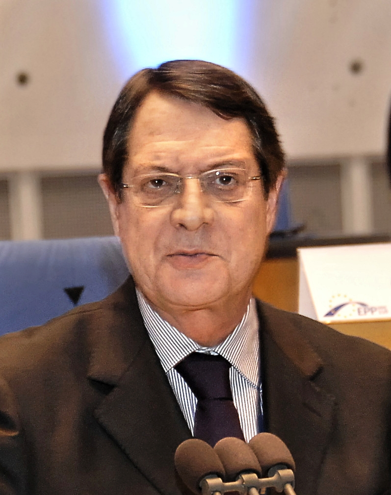 Nicos Anastasiades at EPP Congress Bonn, 9th december 2009